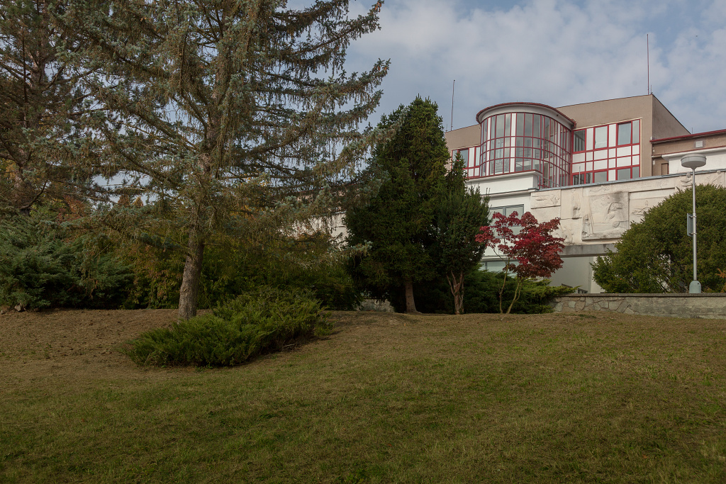 Úpravna vody Podhradí u vítkova